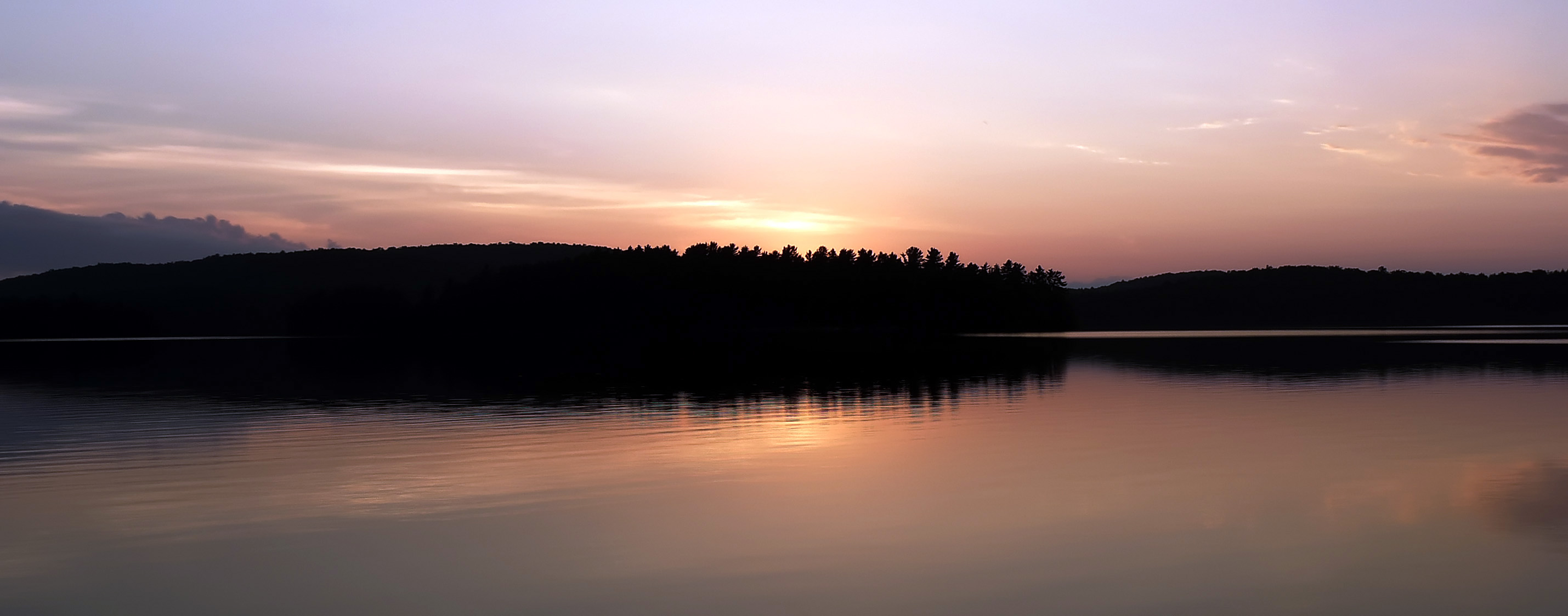 Sunset on North Tea Lake in Algonquin Provincial Park, Canada. HDR image composed from 7 pictures taken with a Panasonic DMC-FZ8 between -2 and 2 EV.